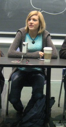 Brookers -- Youtube panel at ROFLcon.